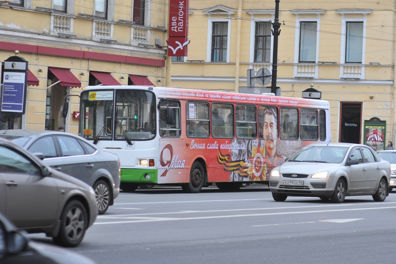 Bus with Stalin's portrait in St. Petersburg.